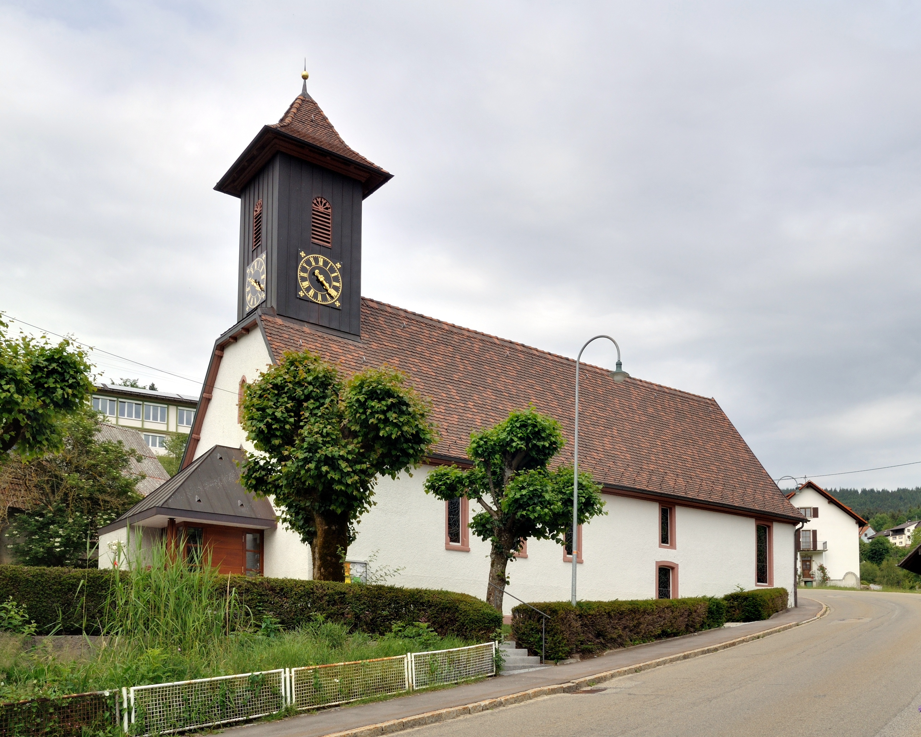 Marzell: Protestant Church